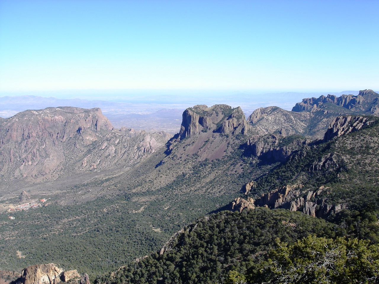 View of Casa Grande from Emory Peak's summit, the highest point in Big Bend National Park.